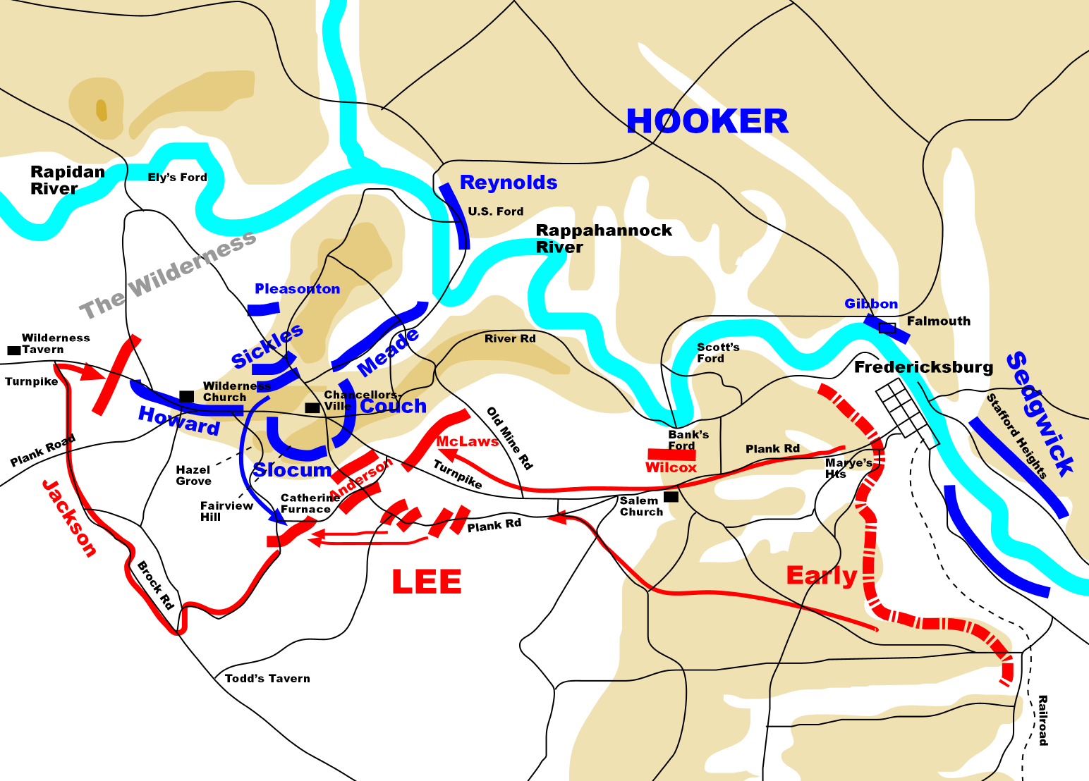 map of Chancellorsville battle 1/3